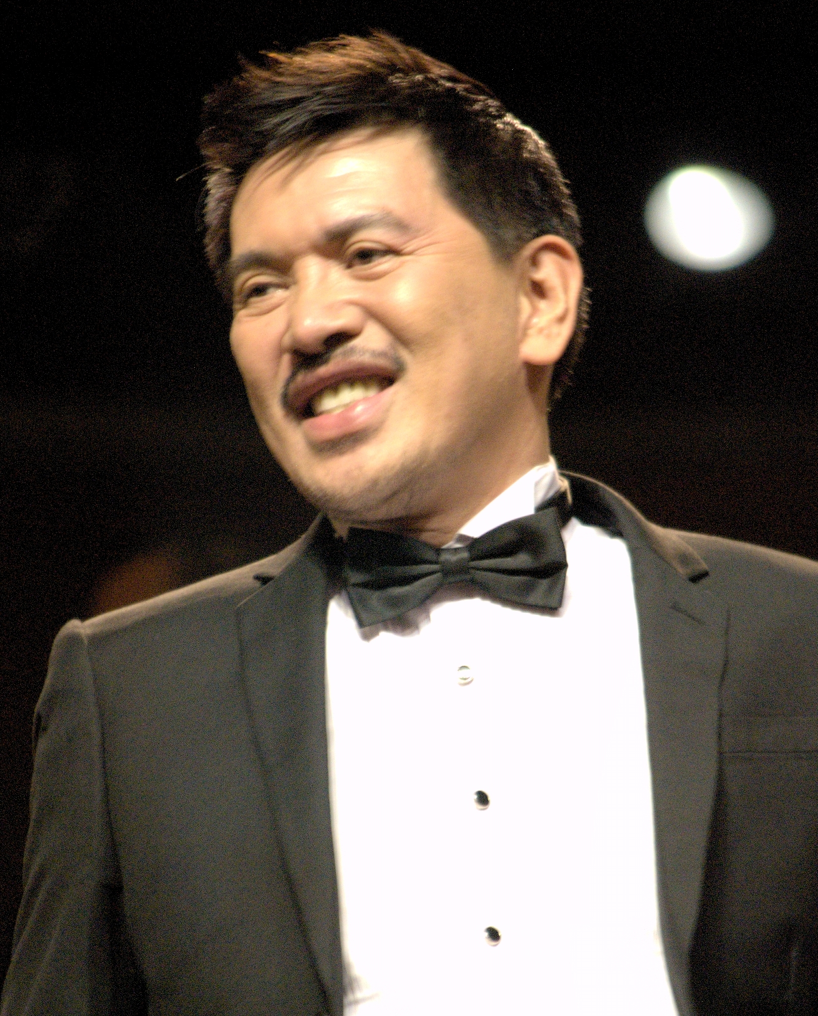 Brillante Mendoza attending the 69th Venice International Film Festival at Venice Lido in September 6, 2012.